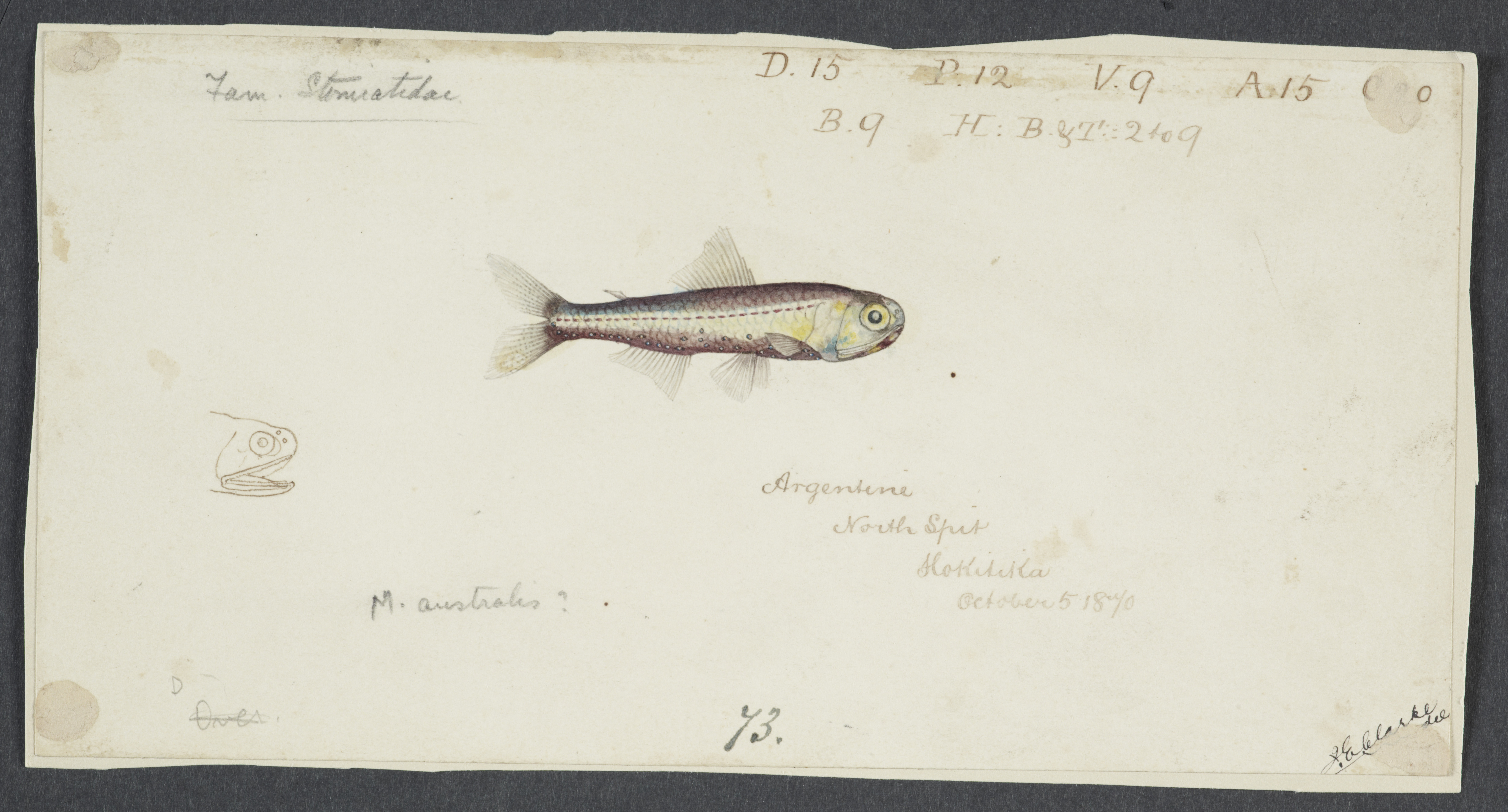 Maurolicus muelleri, 1870, by Frank Edward Clarke. Purchased 1921. Te Papa (1992-0035-2278/74)